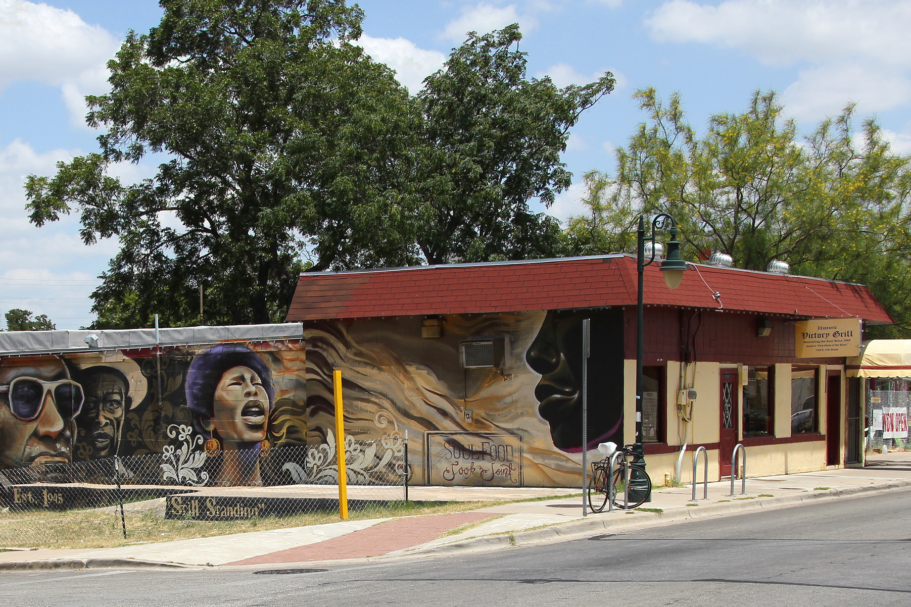 The Victory Grill located at 1104 E. 11th St,Austin, Texas, United States. The Victory Grill was added to the National Register of Historic Places on October 16, 1998.